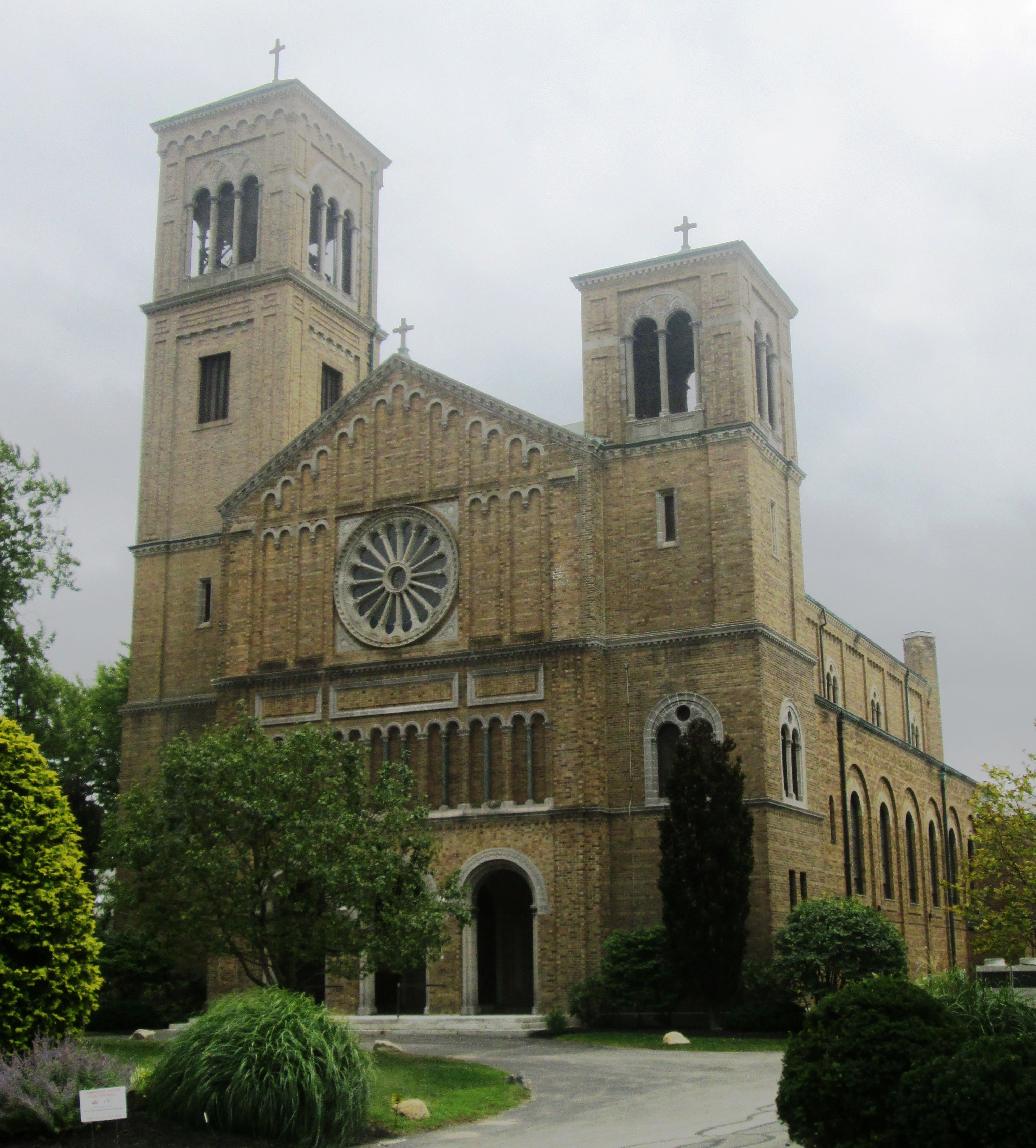 The Reservoir Church, located at 170 Rindge Avenue in the North Cambridge neighborhood of Cambridge, Massachusetts, was built as Our Lady of Pity (Notre Dame de Pitié) Roman Catholic Church, established in 1891 by French Canadian immigrants. The church was closed by the Roman Catholic Archdiocese of Boston in 2003, at which time it served a Haitian congregation. The building was bought by the Reservoir Church in 2004; another building became the Benjamin Banneker Charter Public School. The Reservoir Church congregation was founded in the mid-90s, and held its first service in 1998. It was originally called the Vineyard Christian Fellowship of Cambridge. They left Vineyard/USA in 2015 after feeling pressure to limit the participation of LGBT people in the congregation. (Sources: Boston Globe story. "Our Story" on church website)